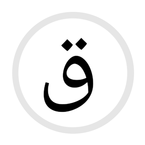 HS Letter (arabic alphabet)